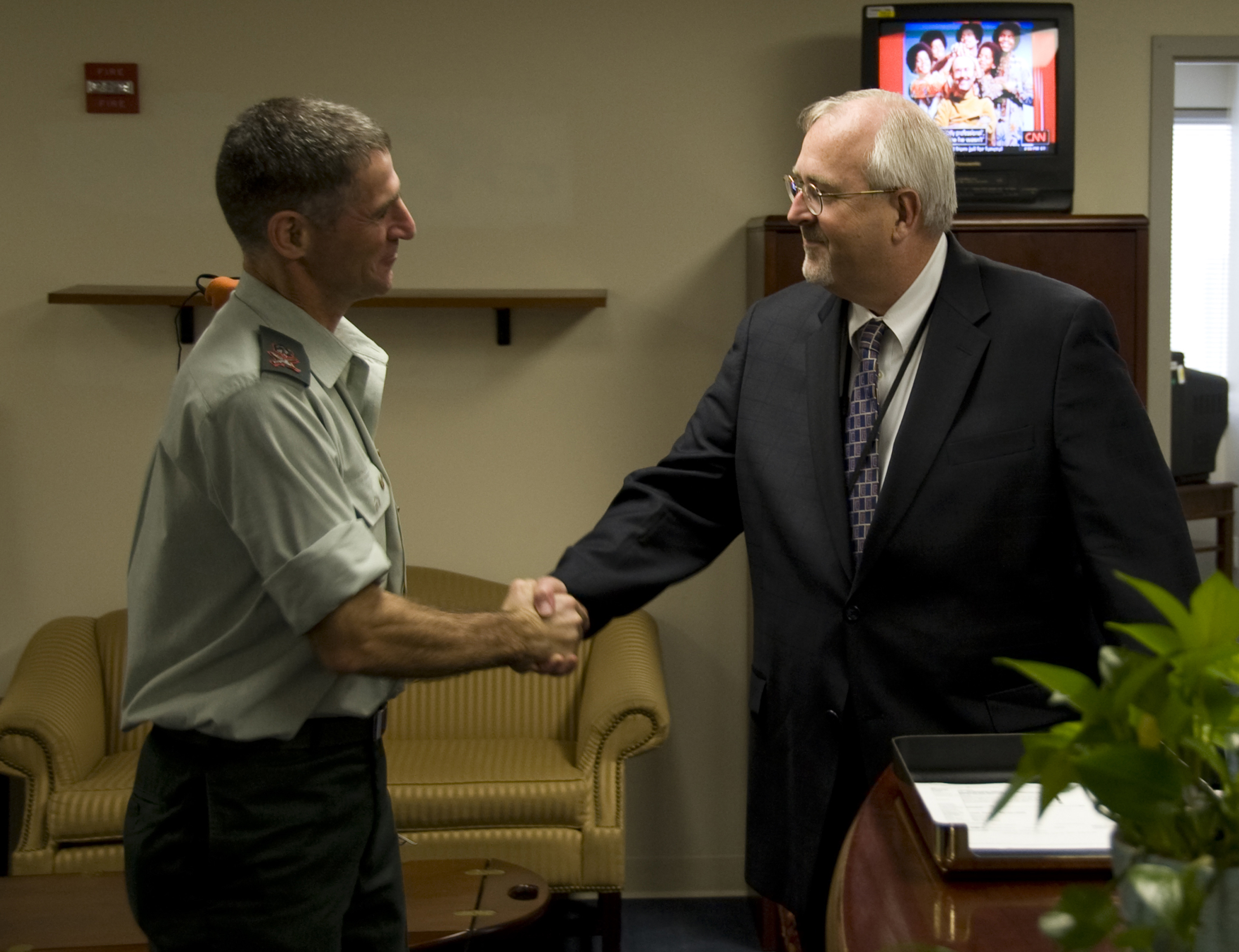 Washington, DC, June 30, 2009 -- Federal Emergency Management Agency (FEMA) Administrator Craig Fugate meeting today with Maj. Gen. Yair Golan of the Israeli Defense Forces Home Front Command (IDF/HFC); continuing to foster a working relationship with Israel and bolstering the exchange of information on common emergency management practices. Mike Moore/FEMA